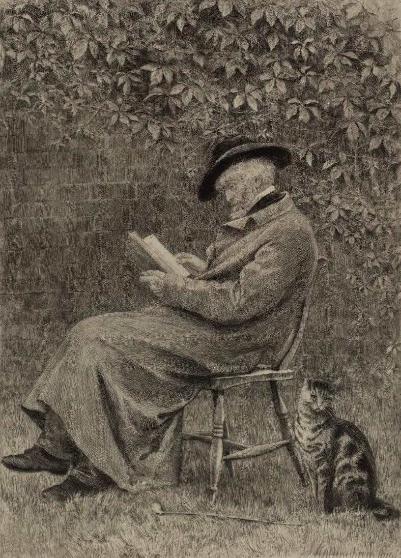 A portrait from the Welsh Portrait Collection at the National Library of Wales. Depicted person: Thomas Carlyle – Scottish philosopher, satirical writer, essayist, historian and teacher